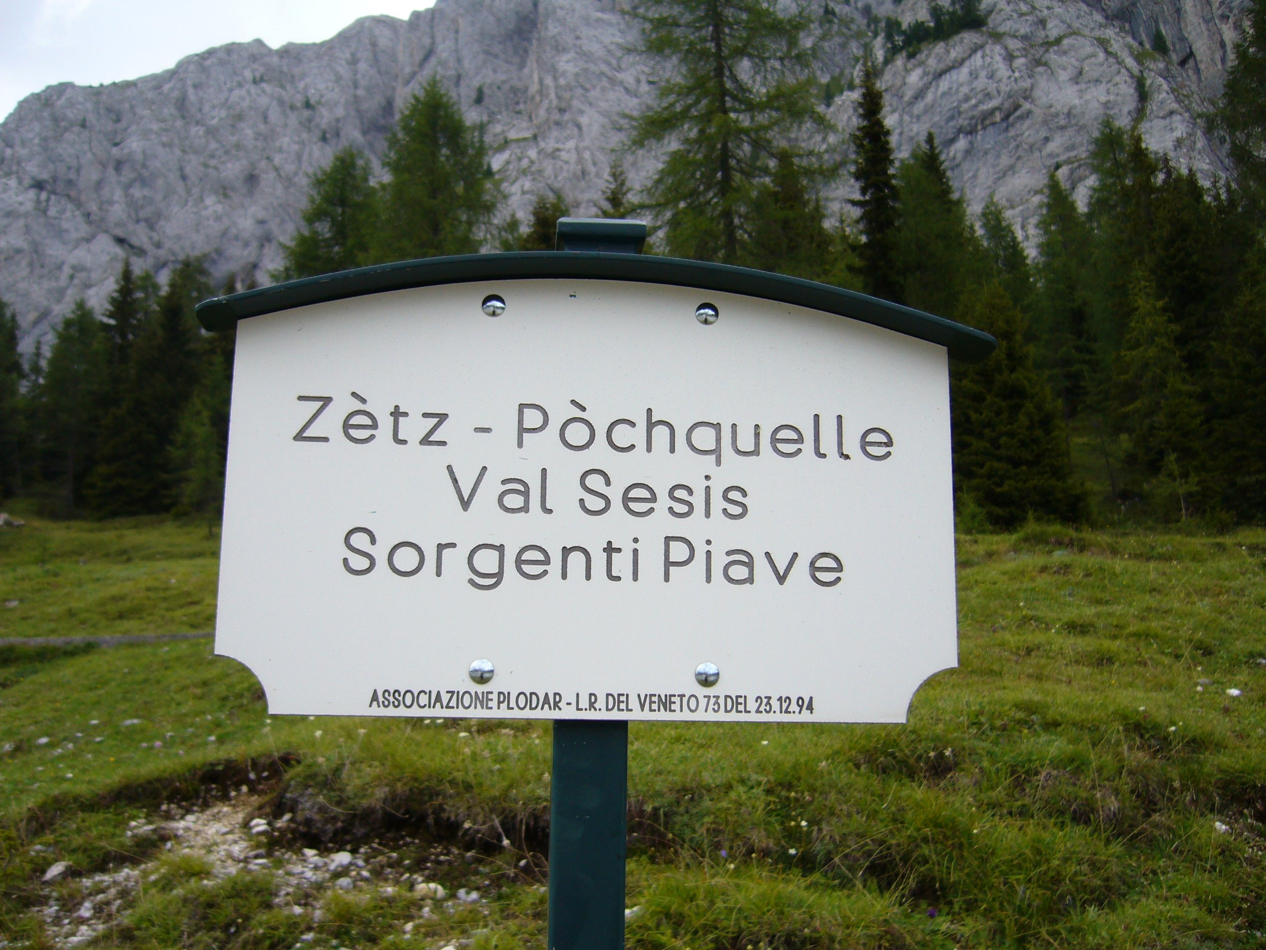 Source of the river Piave near Sappada, bilingual information sign in Italian and in the local german dialect